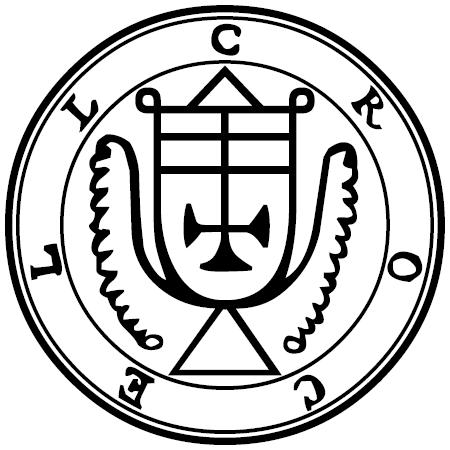 Crocell seal, THE BOOK OF THE GOETIA OF SOLOMON THE KING (1904)